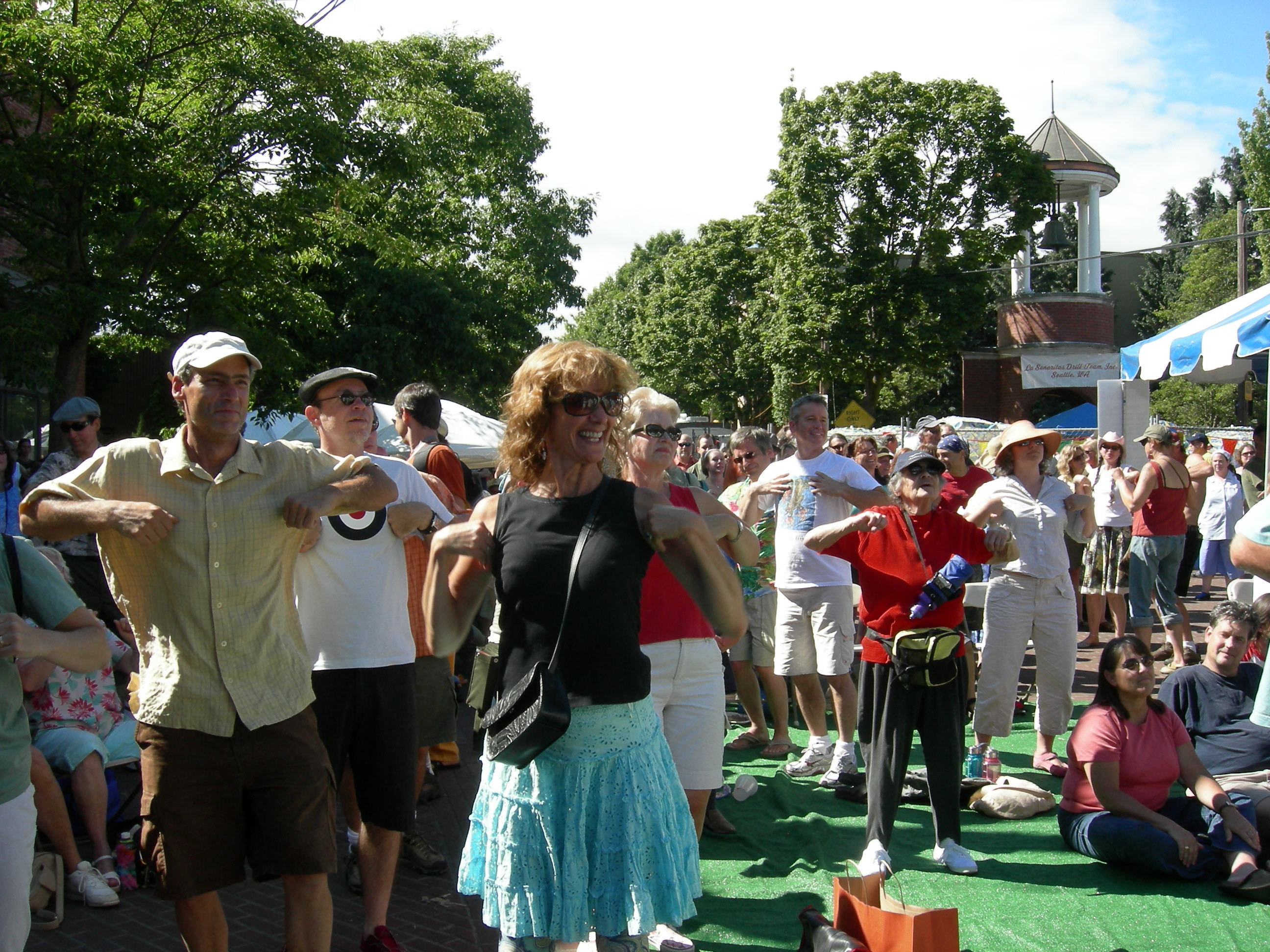 Doing the "chicken dance" at the Ballard Seafood Fest (in the Ballard neighborhood of Seattle, Washington), dancing to Texas band Brave Combo.